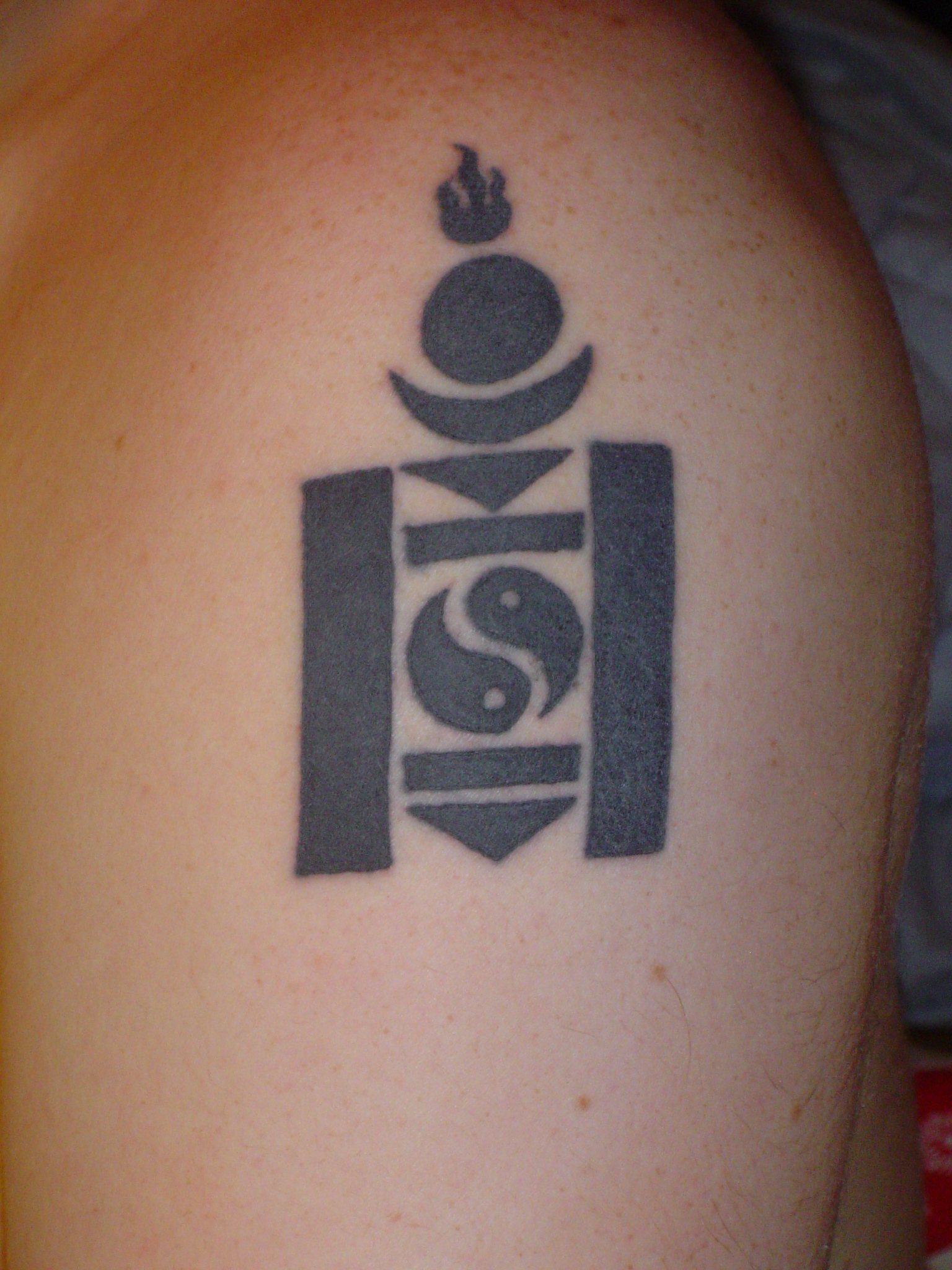 Soyombo symbol (Mongolia's national symbol) as a tattoo.